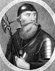 Robert I (known as Robert the Bruce), 1274 - 1329. Earl of Carrick and Lord of Annandale. Reigned 1306 - 1329Norsk bokmål: Robert the Bruce portrett